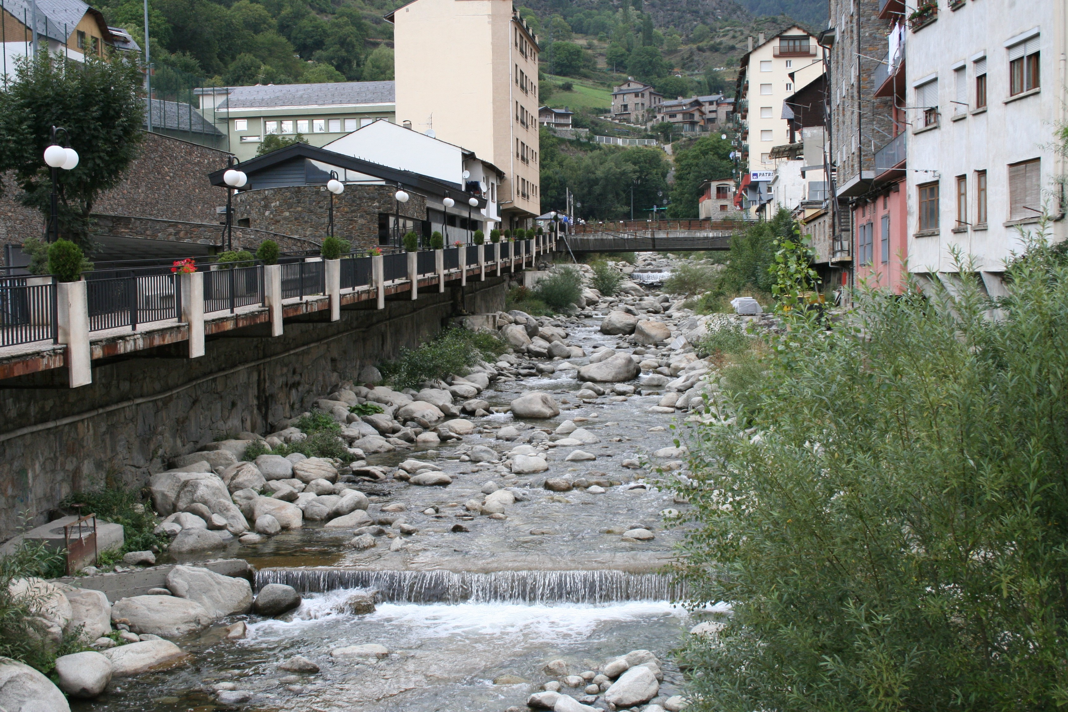 The Valira d'Orient as it passes through the town of Encamp, Andorra